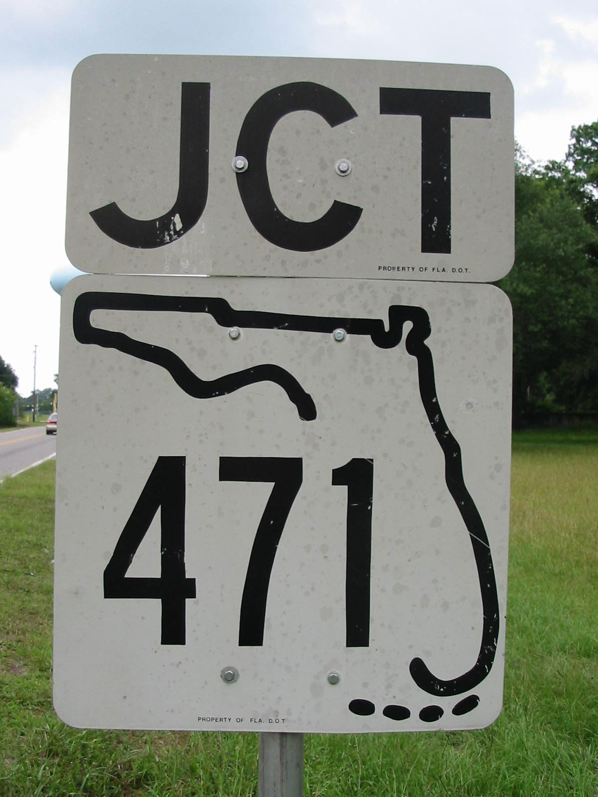 An old-style Florida State Road 471 shield in Webster, Florida. Taken by User:SPUI on June 7, 2003.